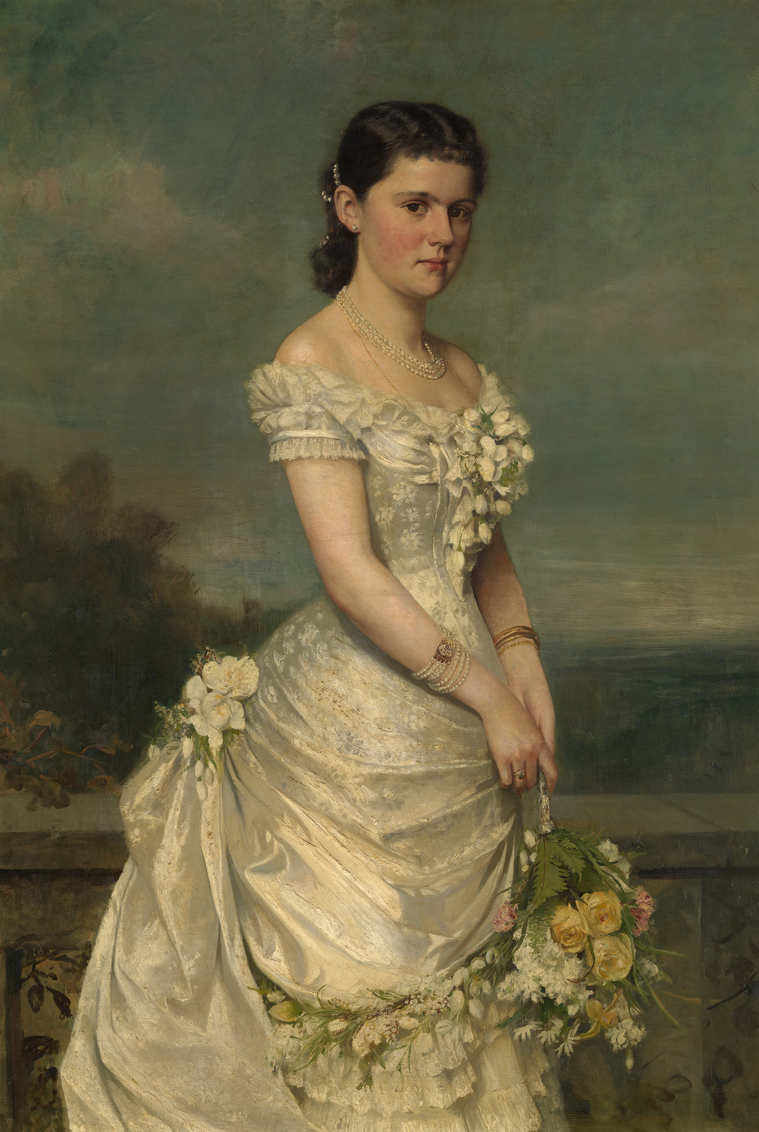 Princess Helen of Waldeck and Pyrmont (1861-1922), Duchess of Albany